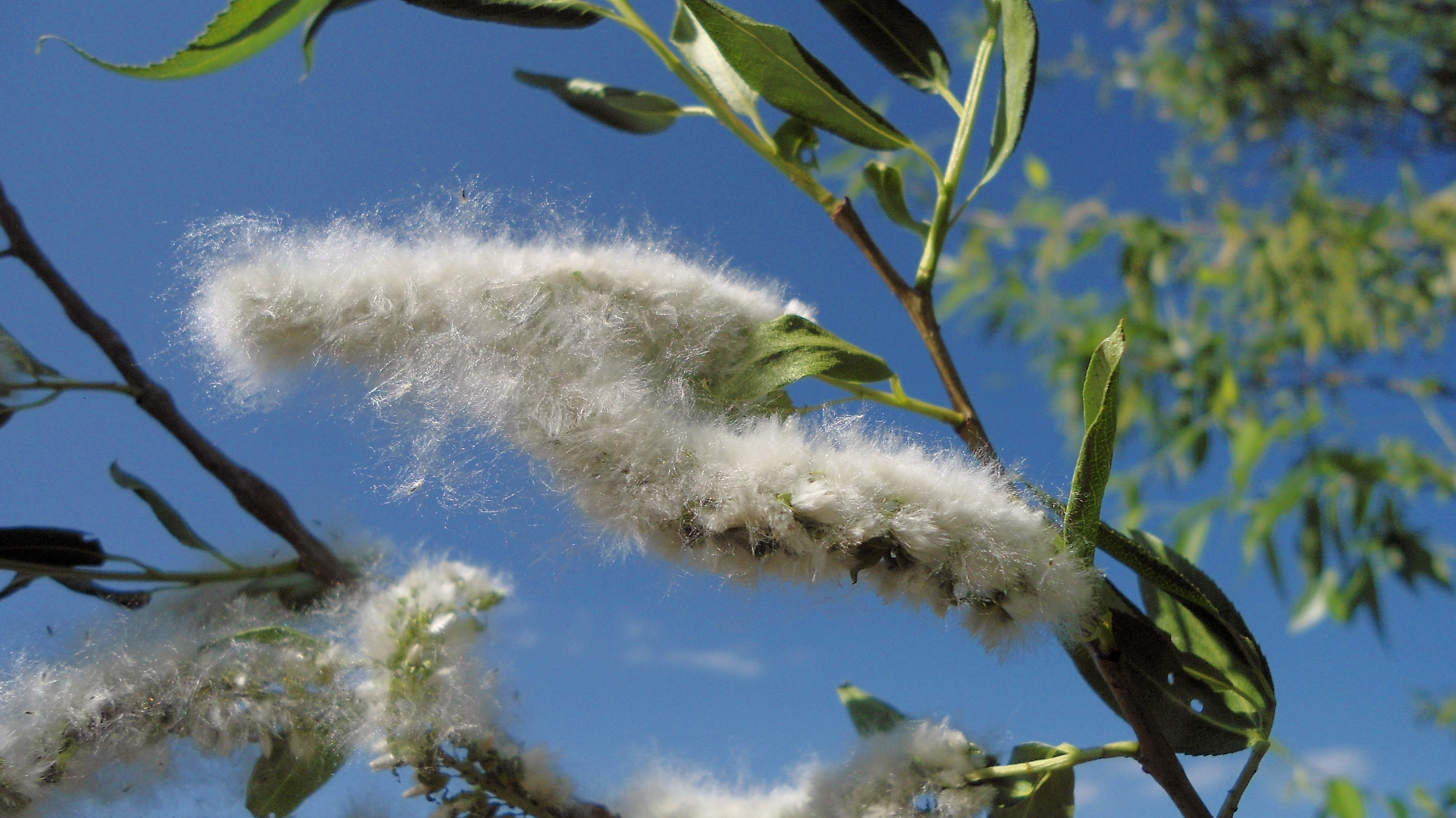 Salix fragilis - seed tufts.